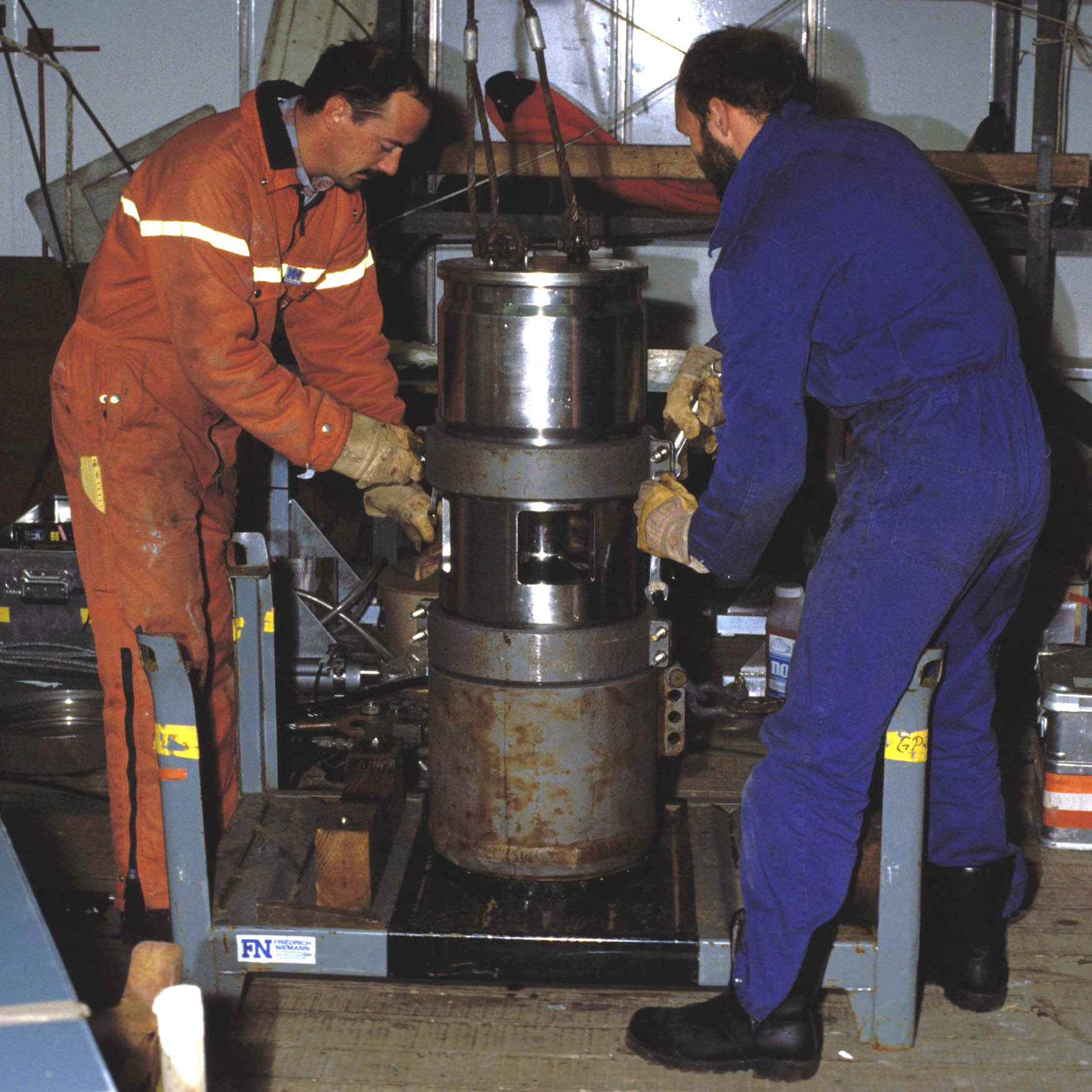 Air gun with a volume of 30 liter, used to produce sound waves for marine refraction seismics. Maintenance during an expedition of the German polar research vessel POLARSTERN to the South Atlantic